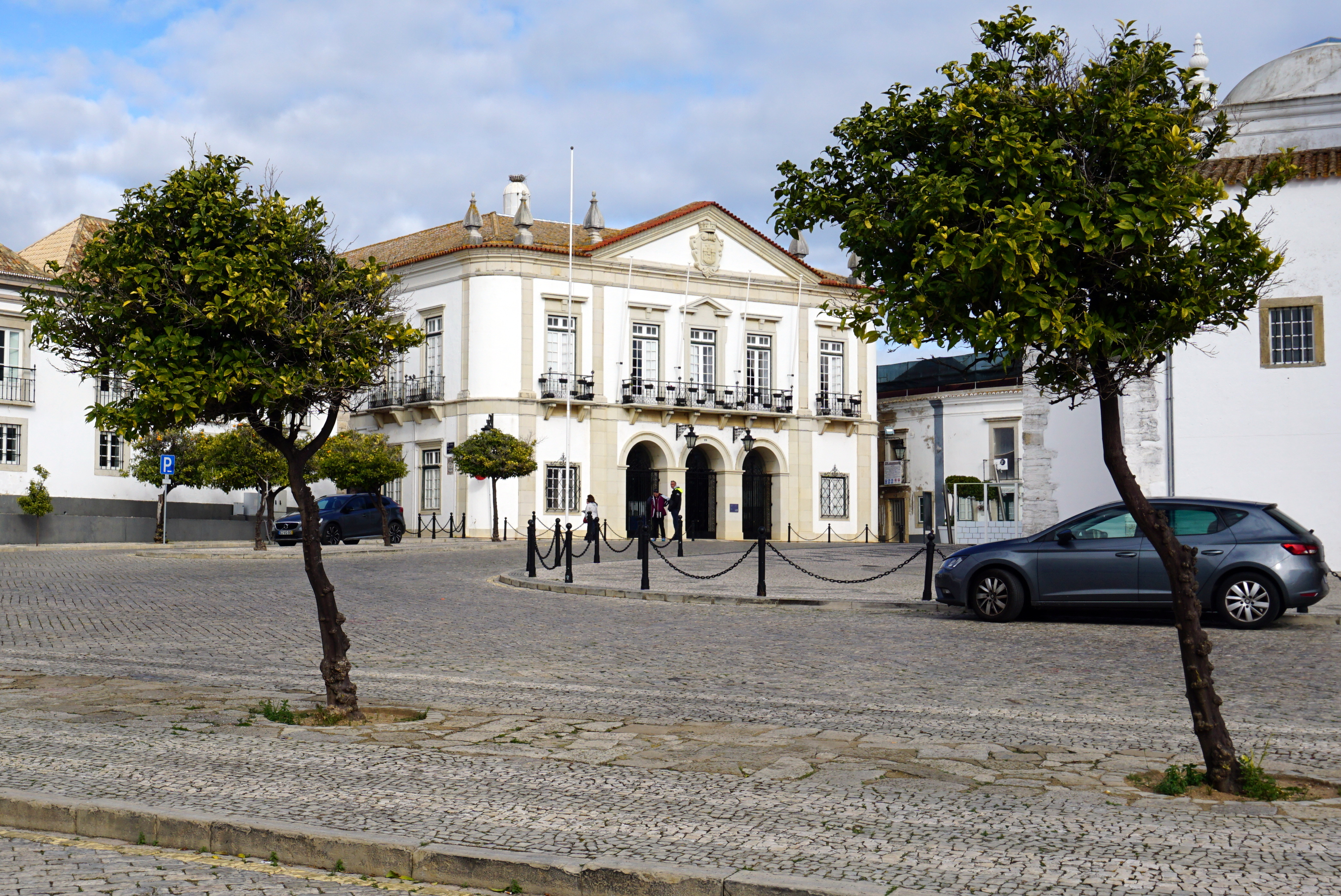 Old Town - Faro, Portugal